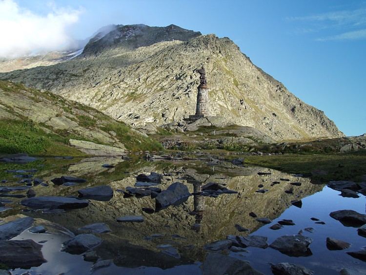 Passo del Gran San Bernardo Picture taken by user Idéfix, 14-08-2006